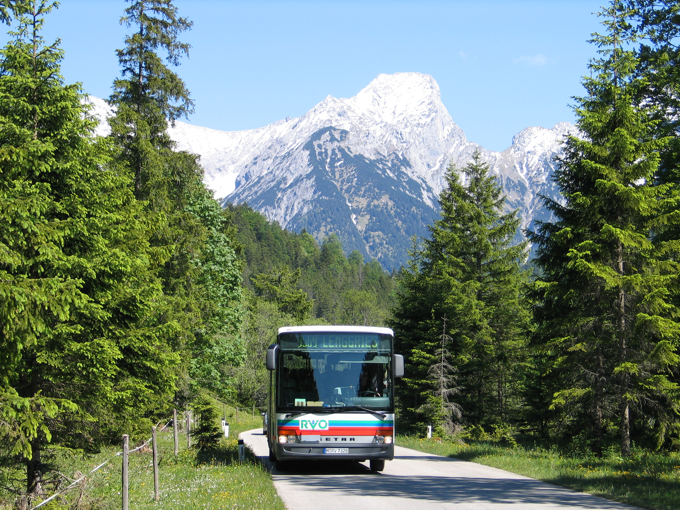 RVO